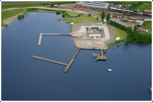 Overhead view of Chasewater watersports centre in Chasewater, Lichfield, Staffordshire, United Kingdom.